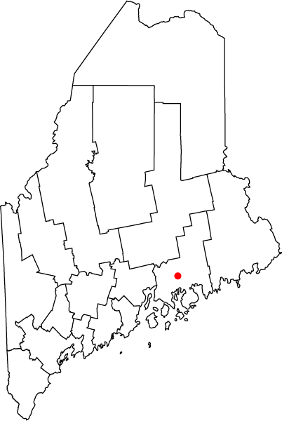 Map of the state of Maine with County Outlines, highlighting the city of Ellsworth.